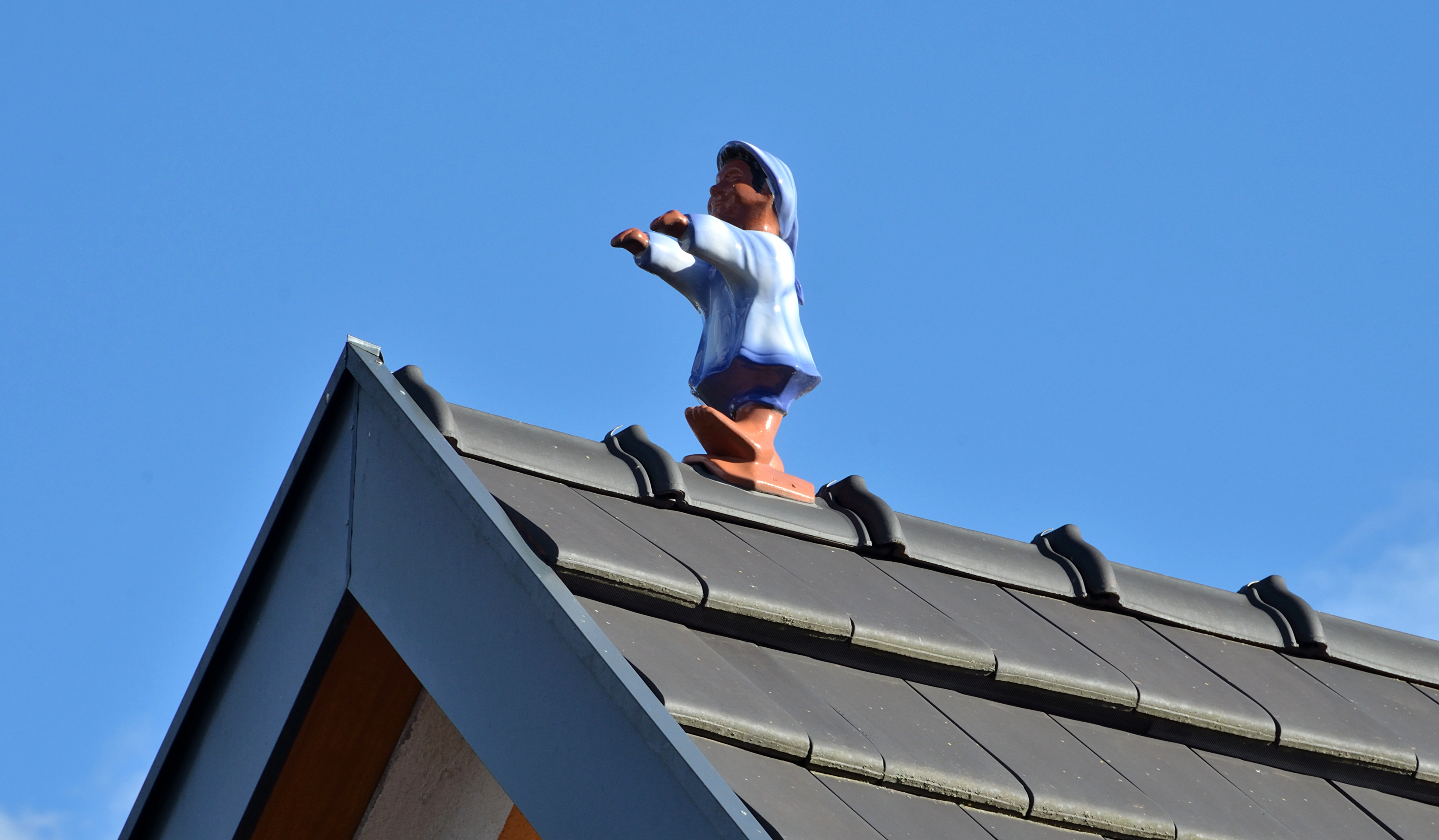 statue of a sleepwalker on top of a roof in Großklein, Styria.